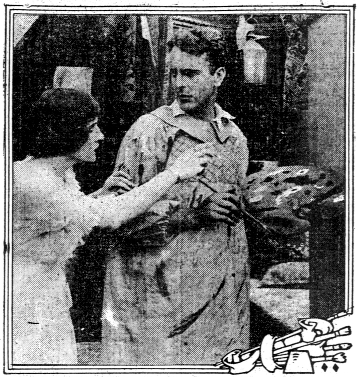 The Pipes o' Pan is a 1914 silent drama film directed by Joe De Grasse and featuring Lon Chaney. Newspaper publicity for the film published in a newspaper.